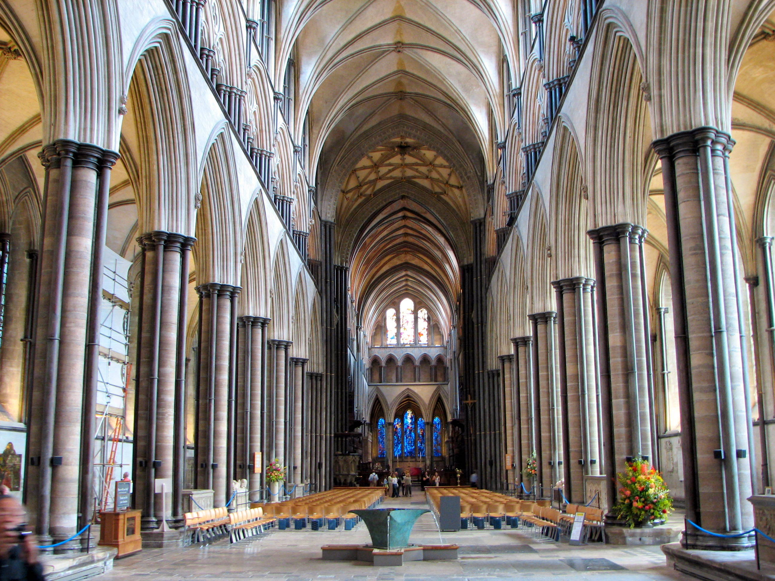 Nave of the Salisbury Cathedral, England